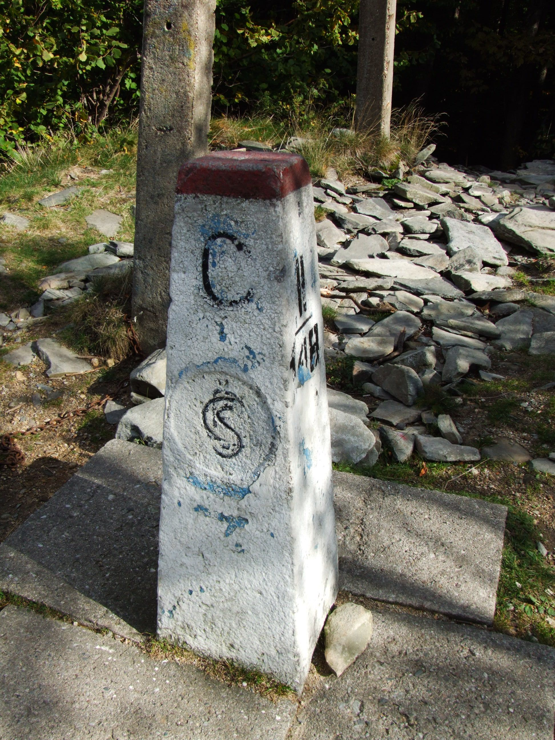 Boudnary stone from Czechoslovakia near Biskupia Kopa